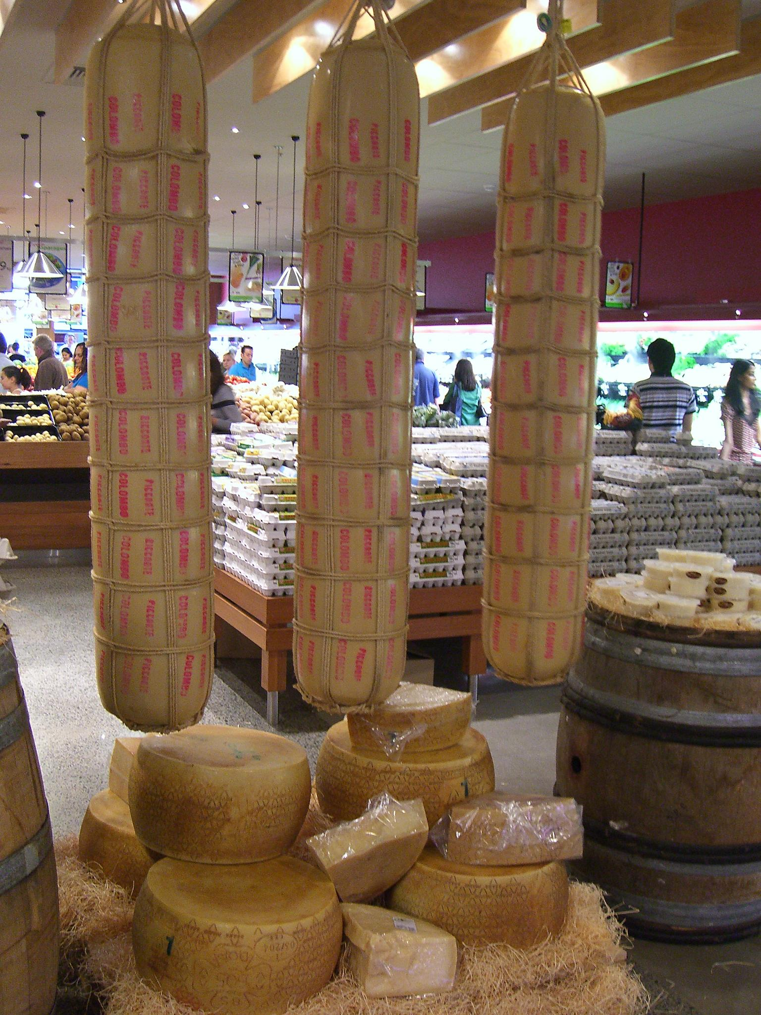 Three Italian Provolone cheese sausages (by Giovanni Colombo SpA, Pavia, It.) with Parmigiano cheese on straw.